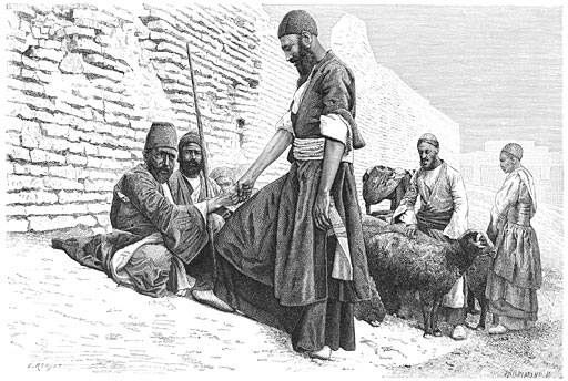 Bazaar of Varamin as seen by Jane Dieulafoy.